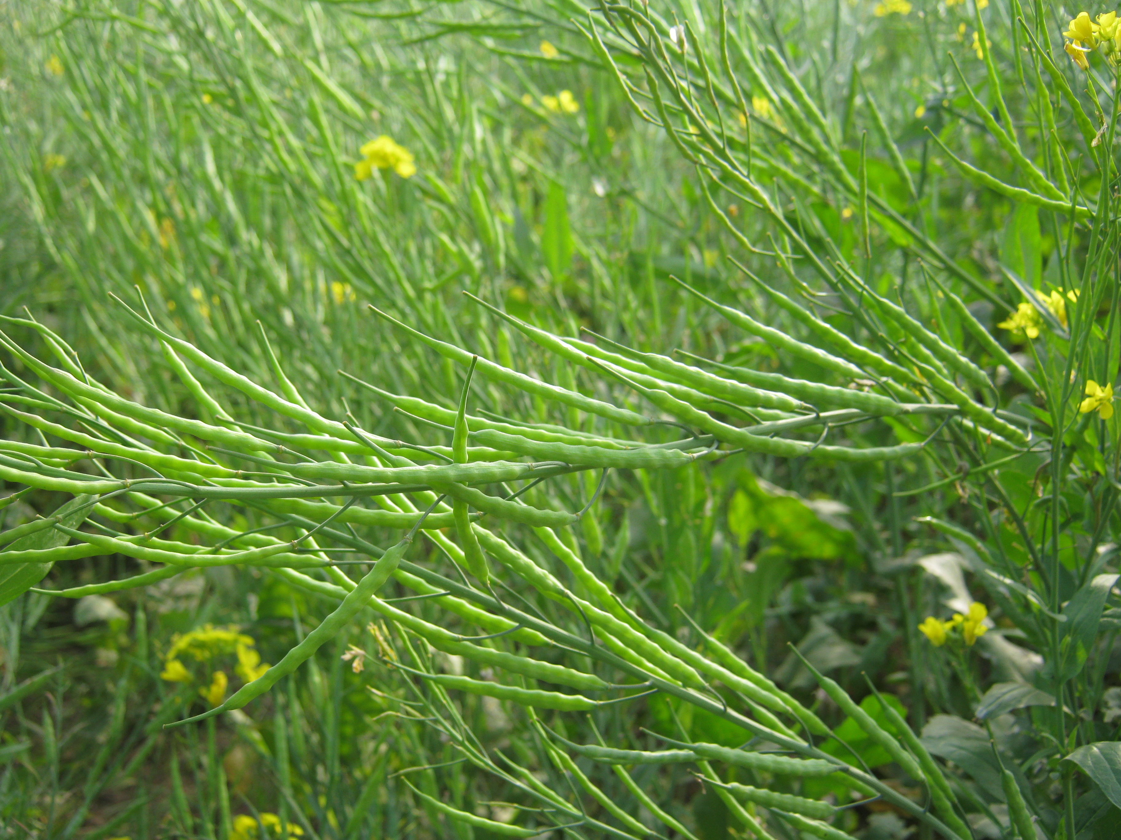 Green Mustard in a field of Bangladesh